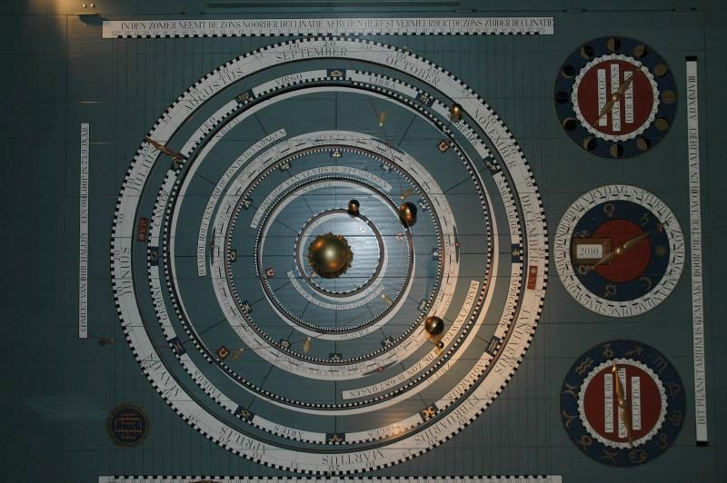 Here you see the Planetarium Zuylenburgh